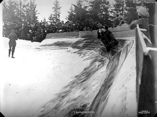 Sledding in Korketrekkeren, Oslo, Norway, during the first competition